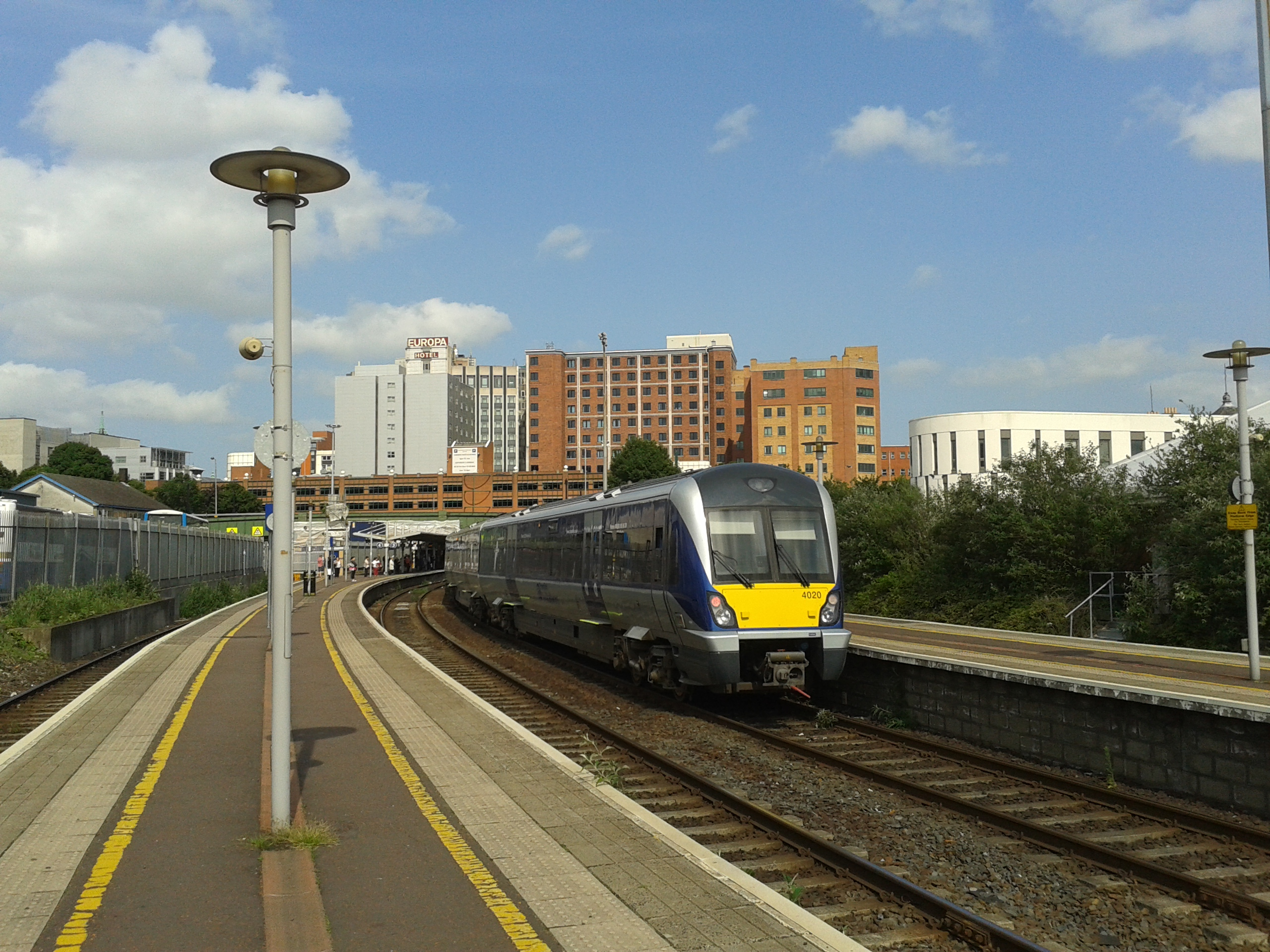 NIR Class 4000 DMU 4020 Great Victoria Street station, Belfast 20130626_163033